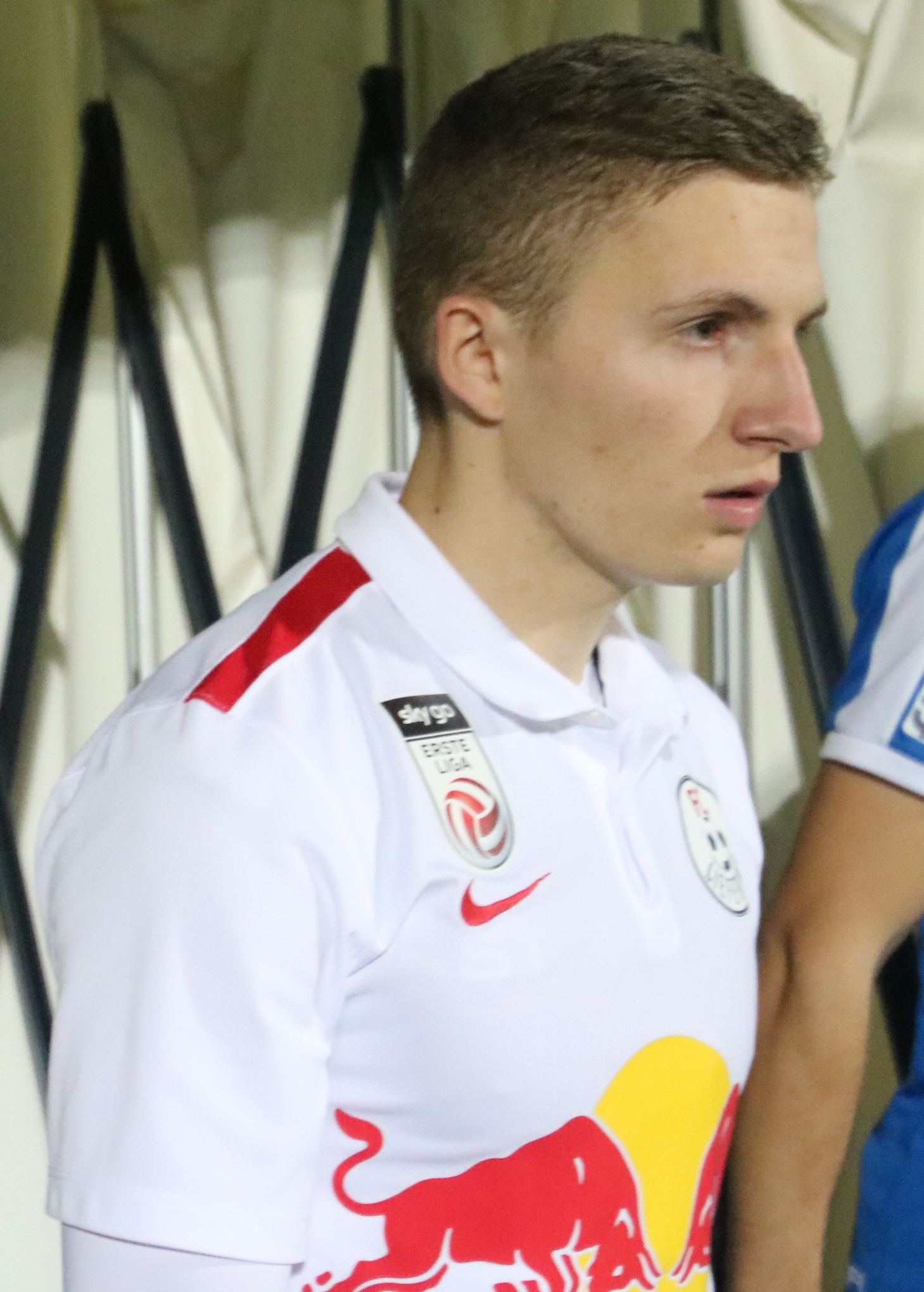 Austrian 2nd league